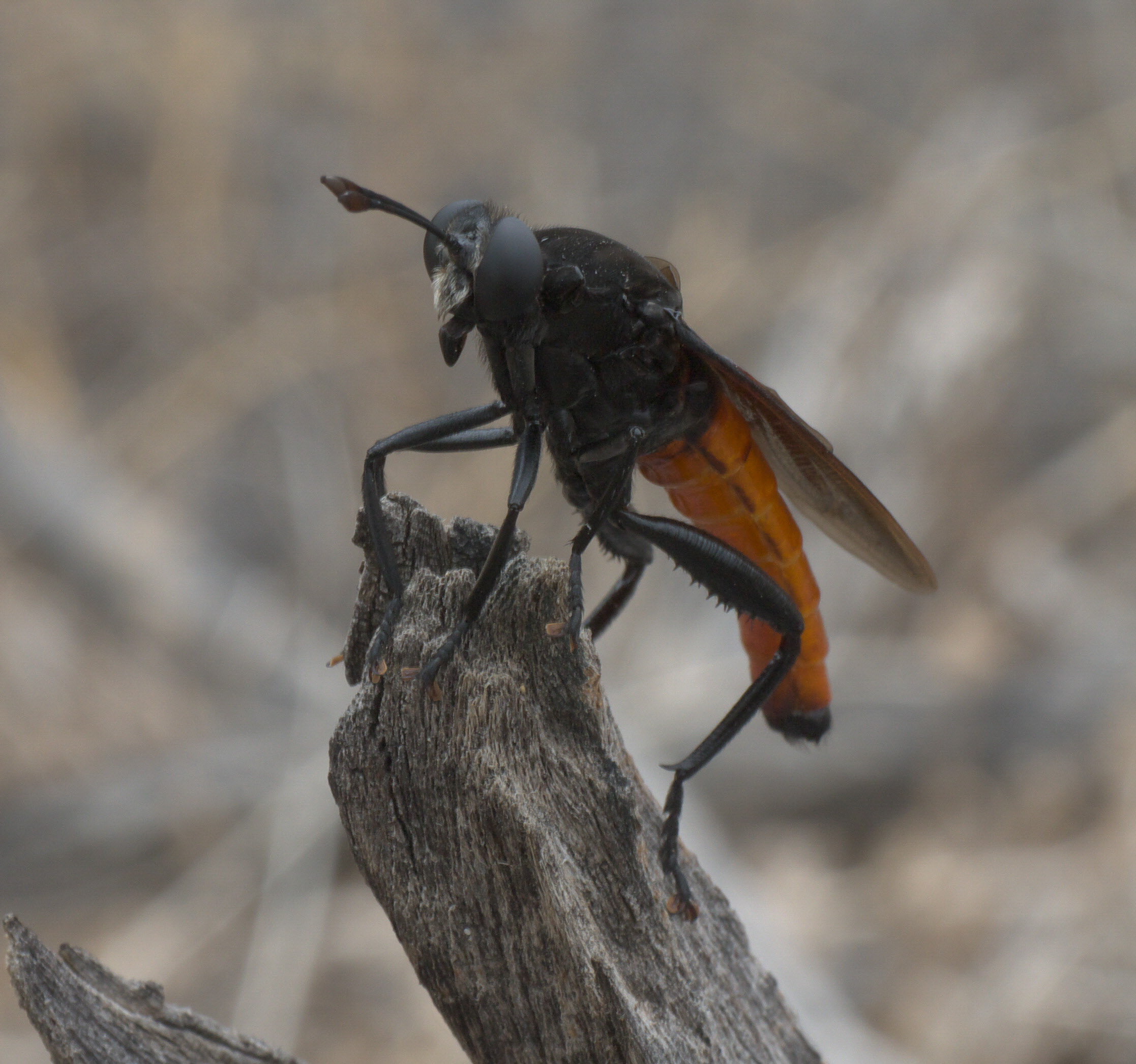 Mydas ventralis, Family: Mydas Flies, ID Confidence: 98